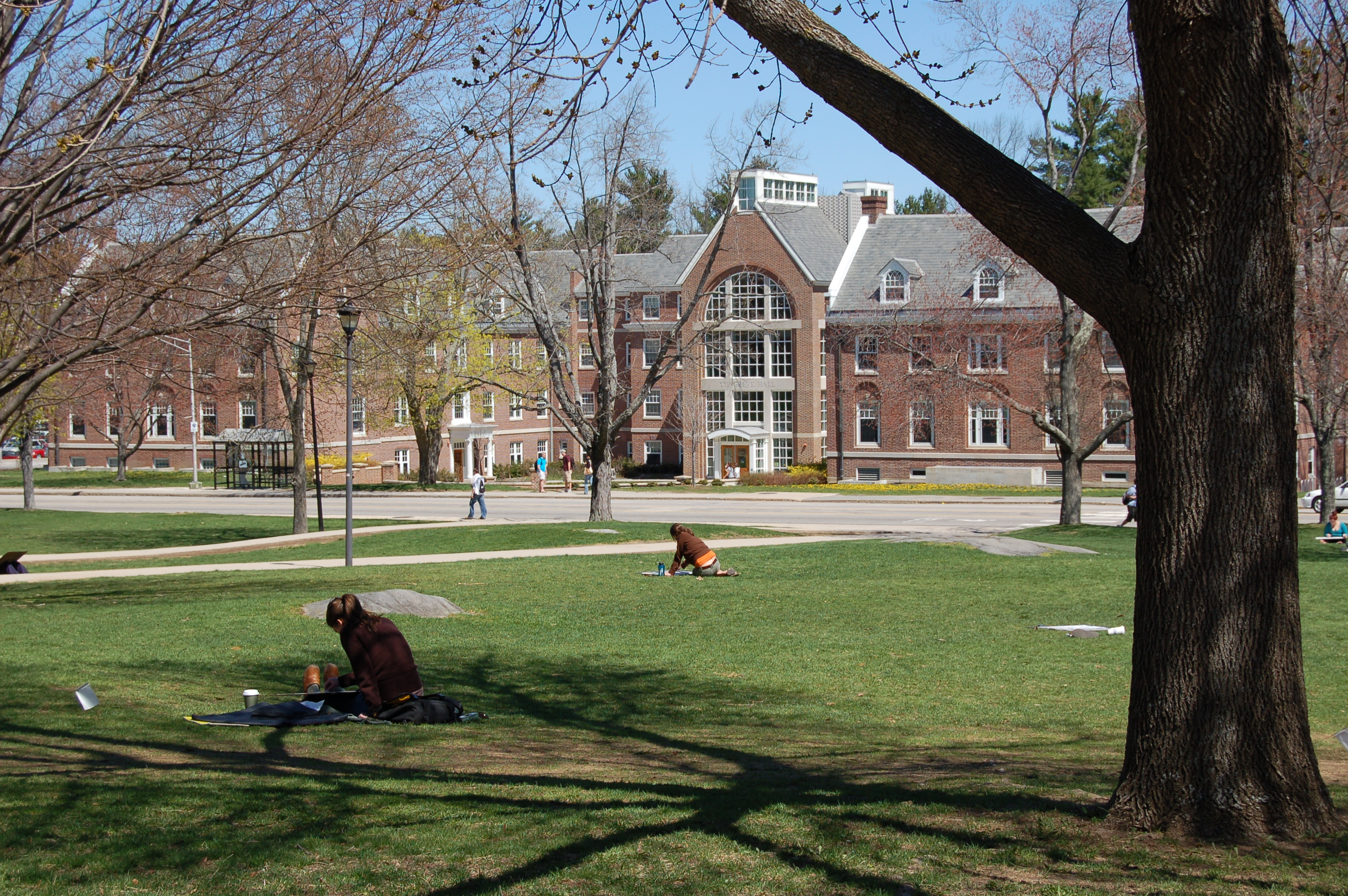 Congreve Hall seen from across Thompson Hall lawn and Main Street on the University of New Hampshire campus. ©2007 by Kyle Todesca